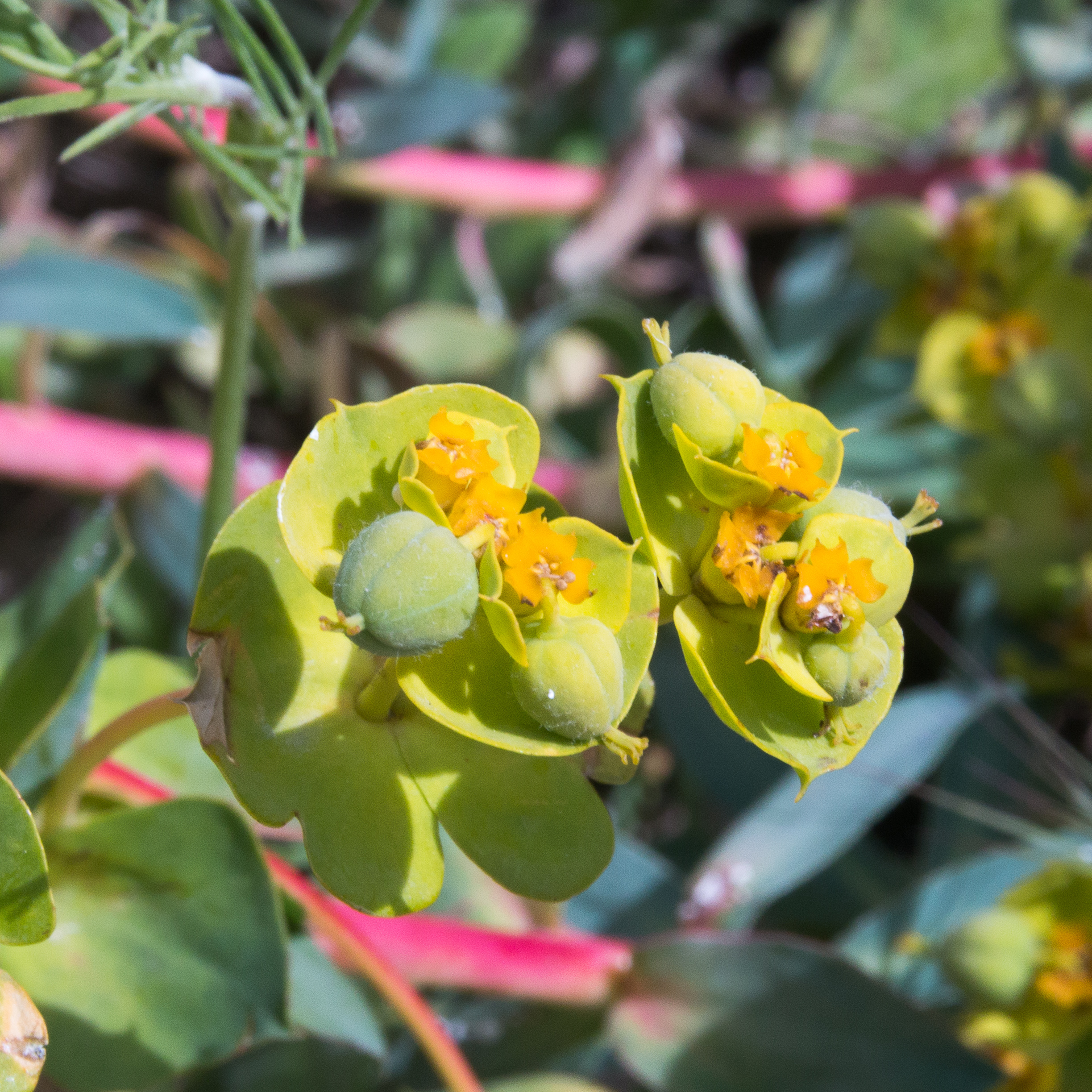 Séguier 's Spurge's fowers.